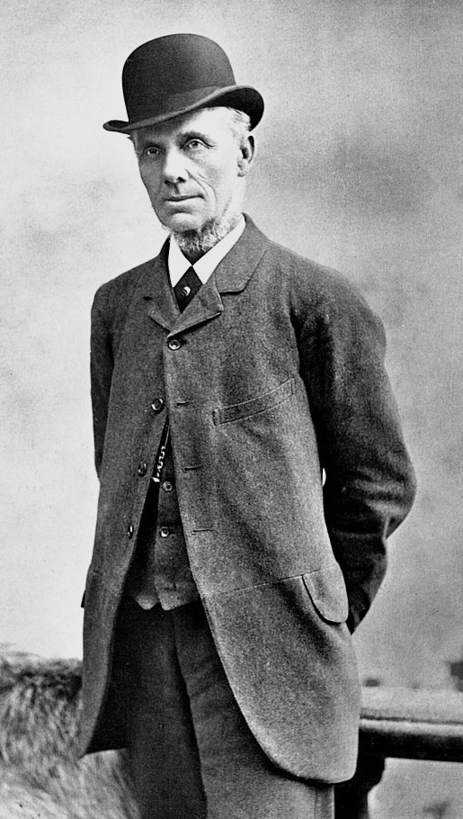 Sport, Cricket, Circa 1895, Robert Carpenter, who in the 1860's for Cambridge University was thought to be one of the best batsmen in England, later he became an umpire standing in some Test matches